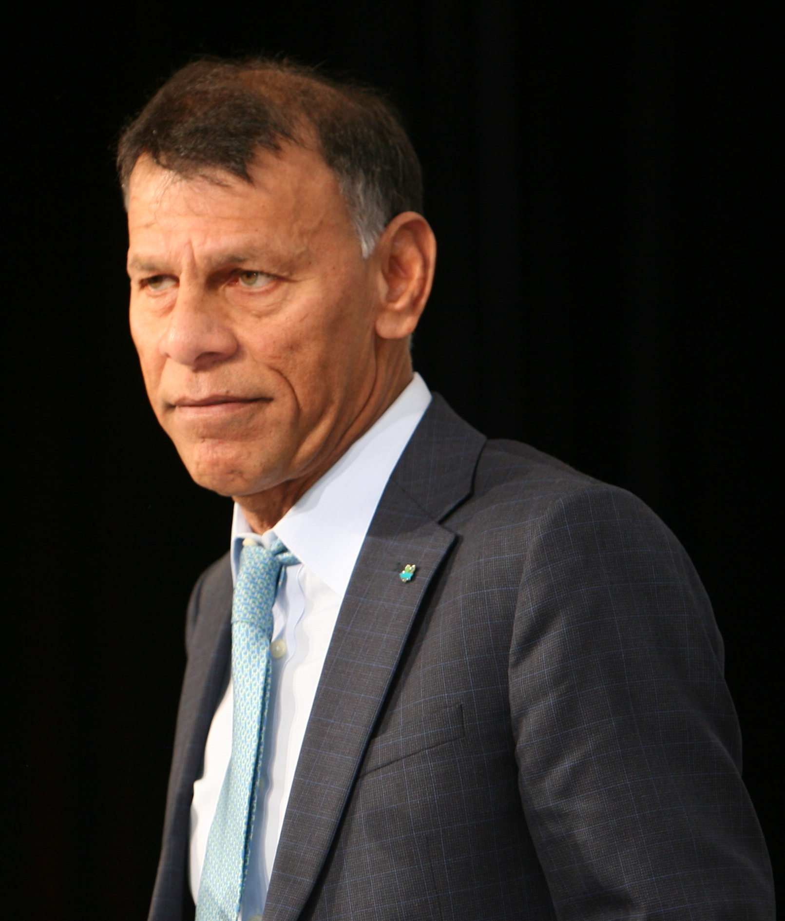 Hassan Yussuff at the Ontario Federation of Labour Convention